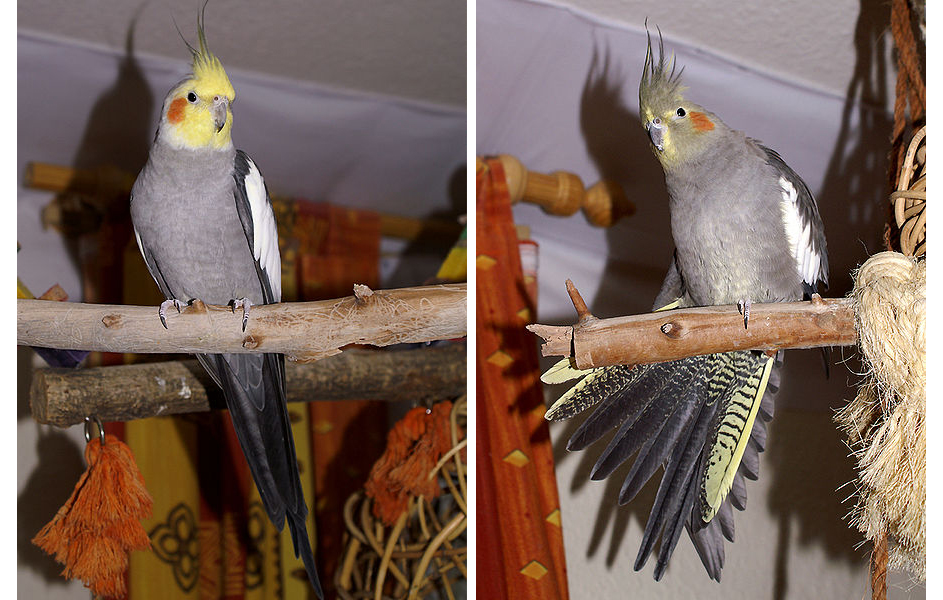 Cockatiels